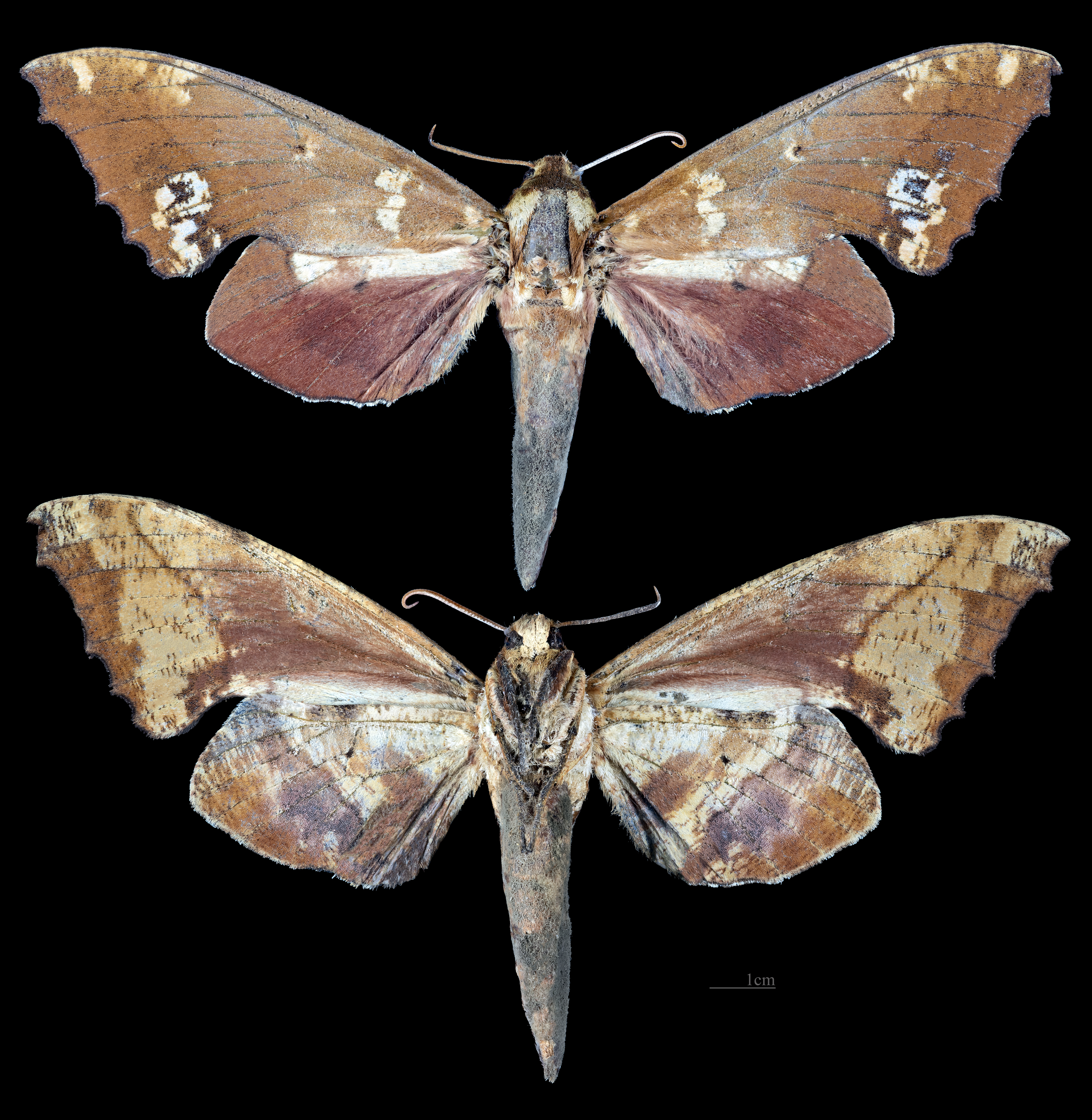 Smerinthulus olivacea - Two views of same specimen Collection of the Mathematician Laurent Schwartz